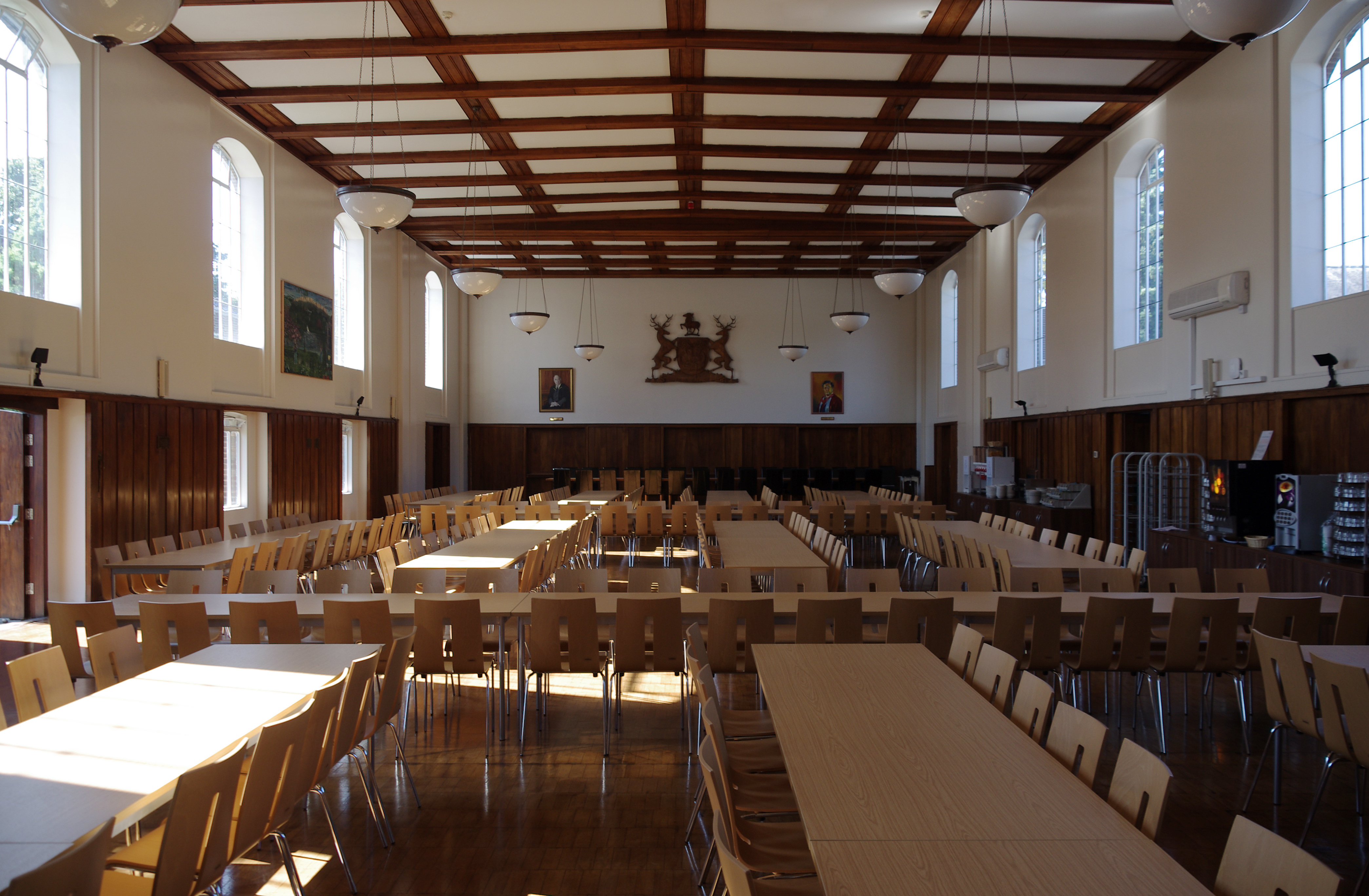 Interior of the caféteria of Derby Hall at the University of Nottingham.